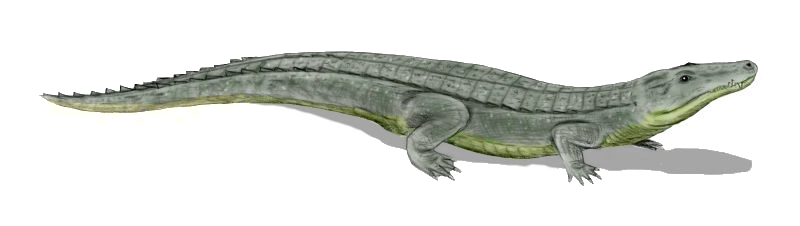 Goniopholis simus, a crocodilian from the Early Cretaceous of Germany, pencil drawing